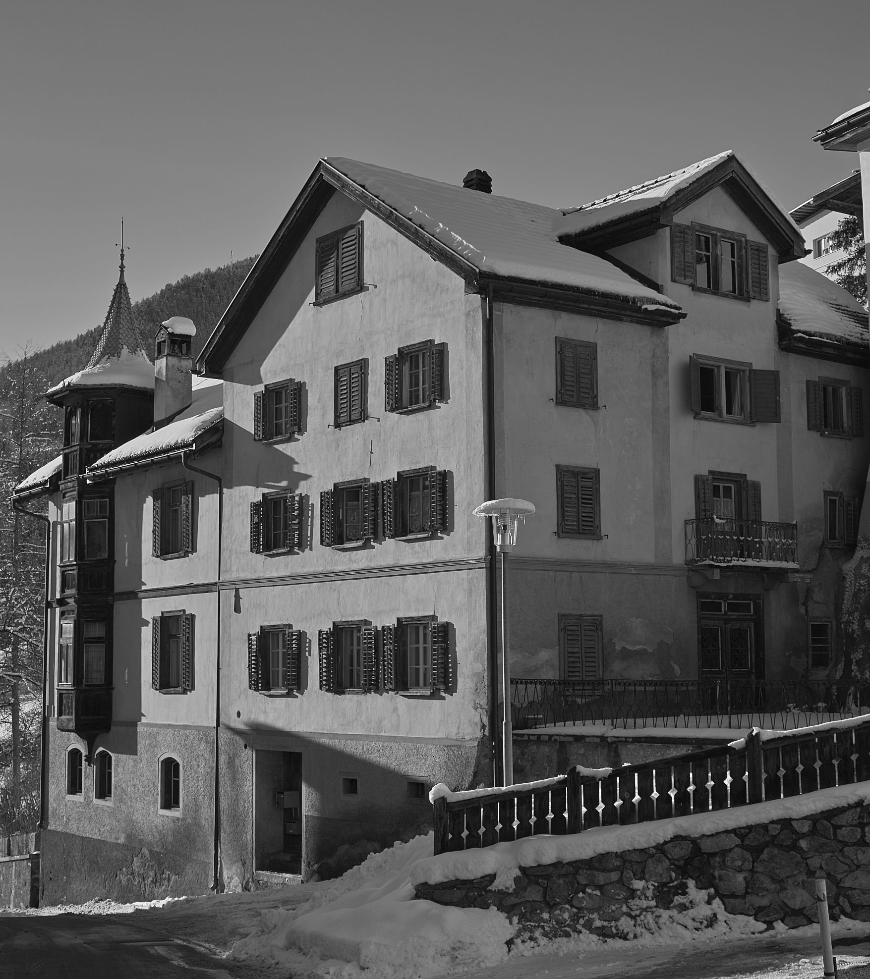 The house in Ramosch, Switzerland where the poet Luisa Famos lived